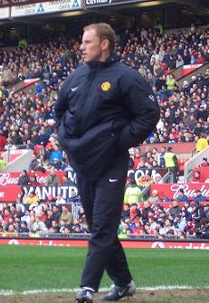 Nicky Butt 20.03.2004 as substitute vs. Tottenham Hotspur (3-0). My own picture from 1st row.